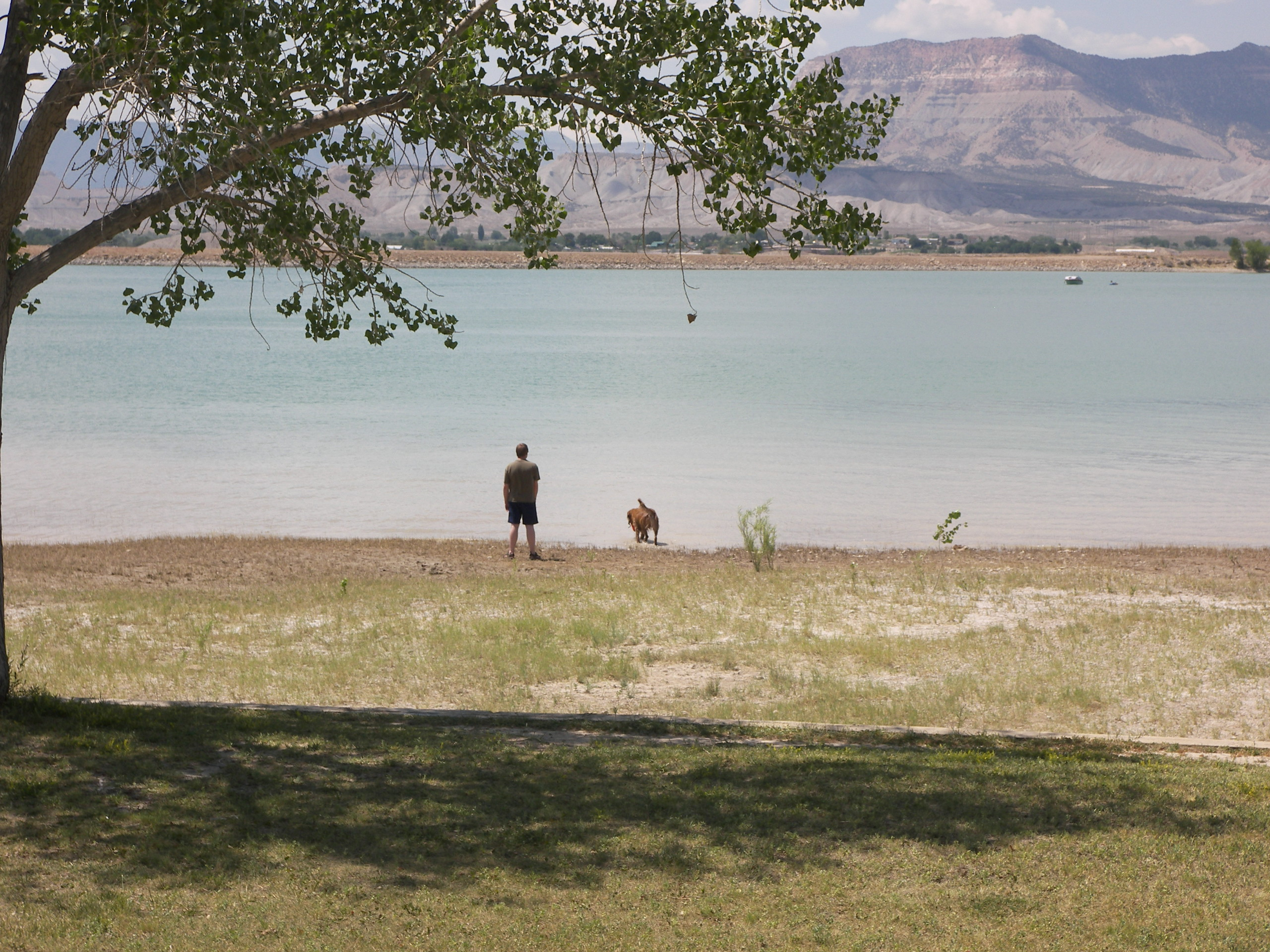 07/31/09 Huntington State Park